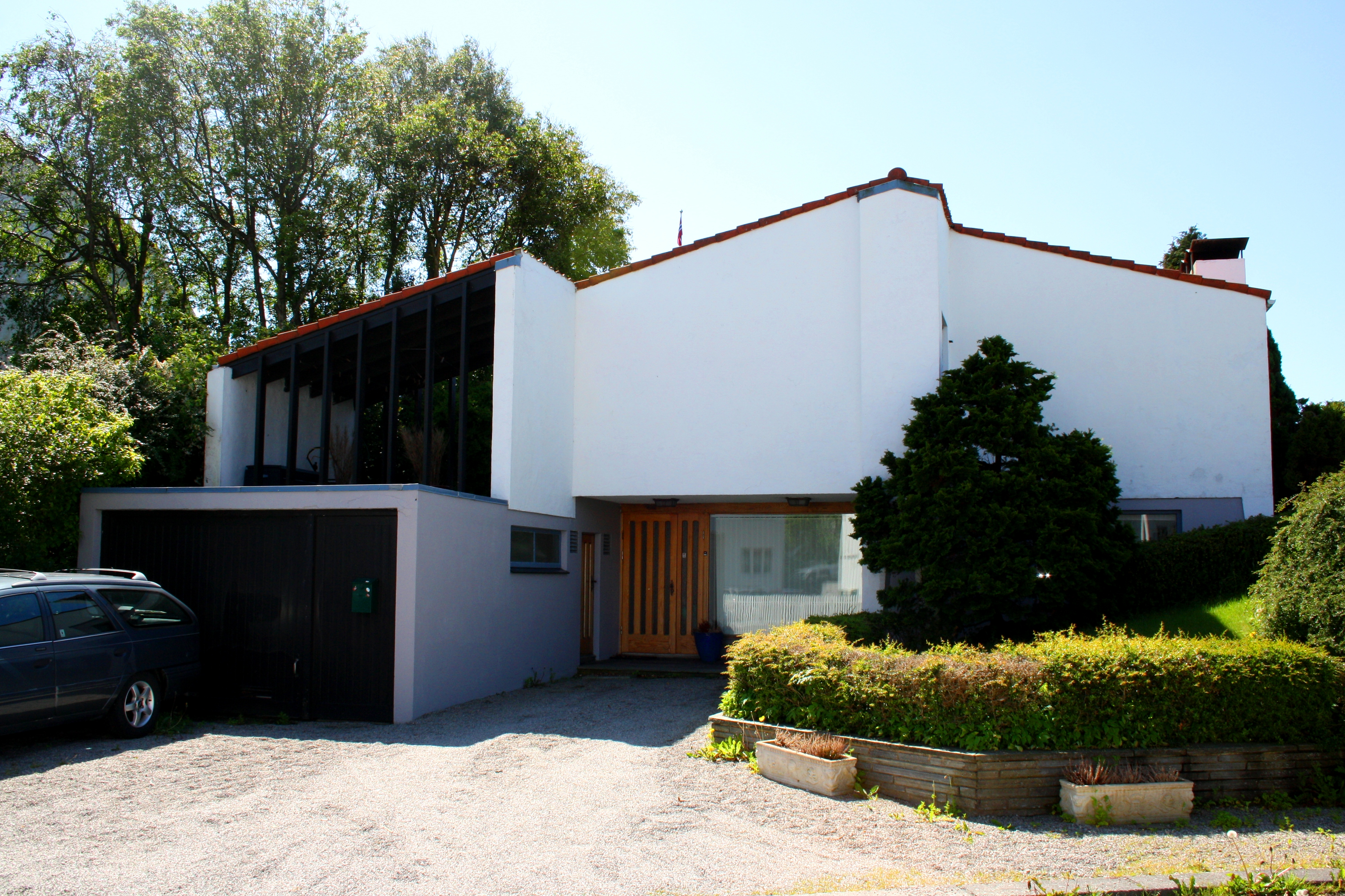 Kong Sulkes gate 1, Haugesund